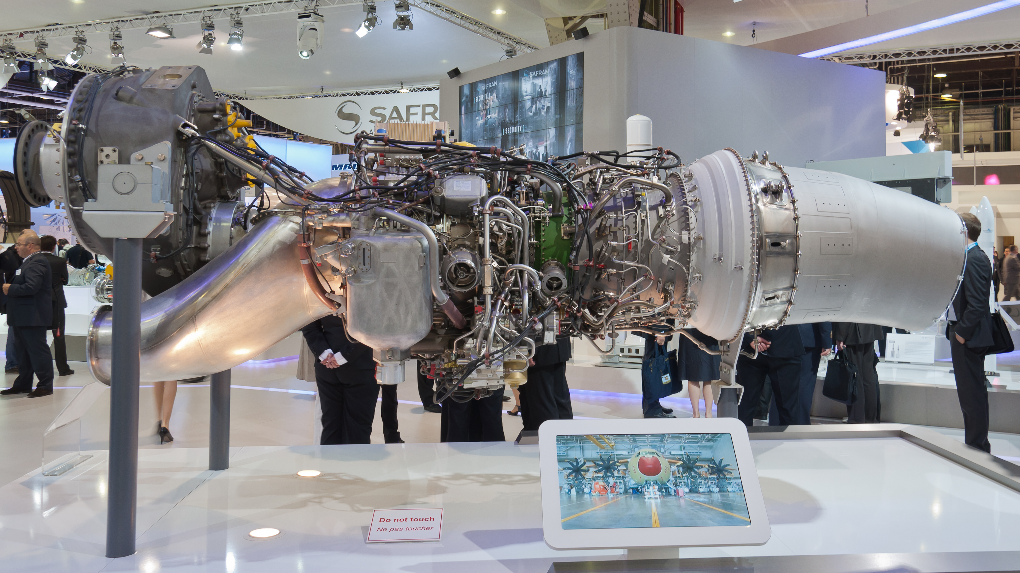 Europrop TP400 turboprop engine of the Airbus A400M.